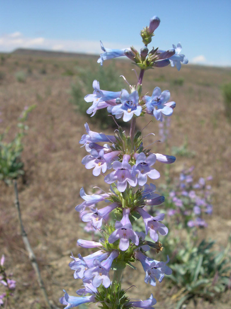 Penstemon acuminatus in southwest Idaho